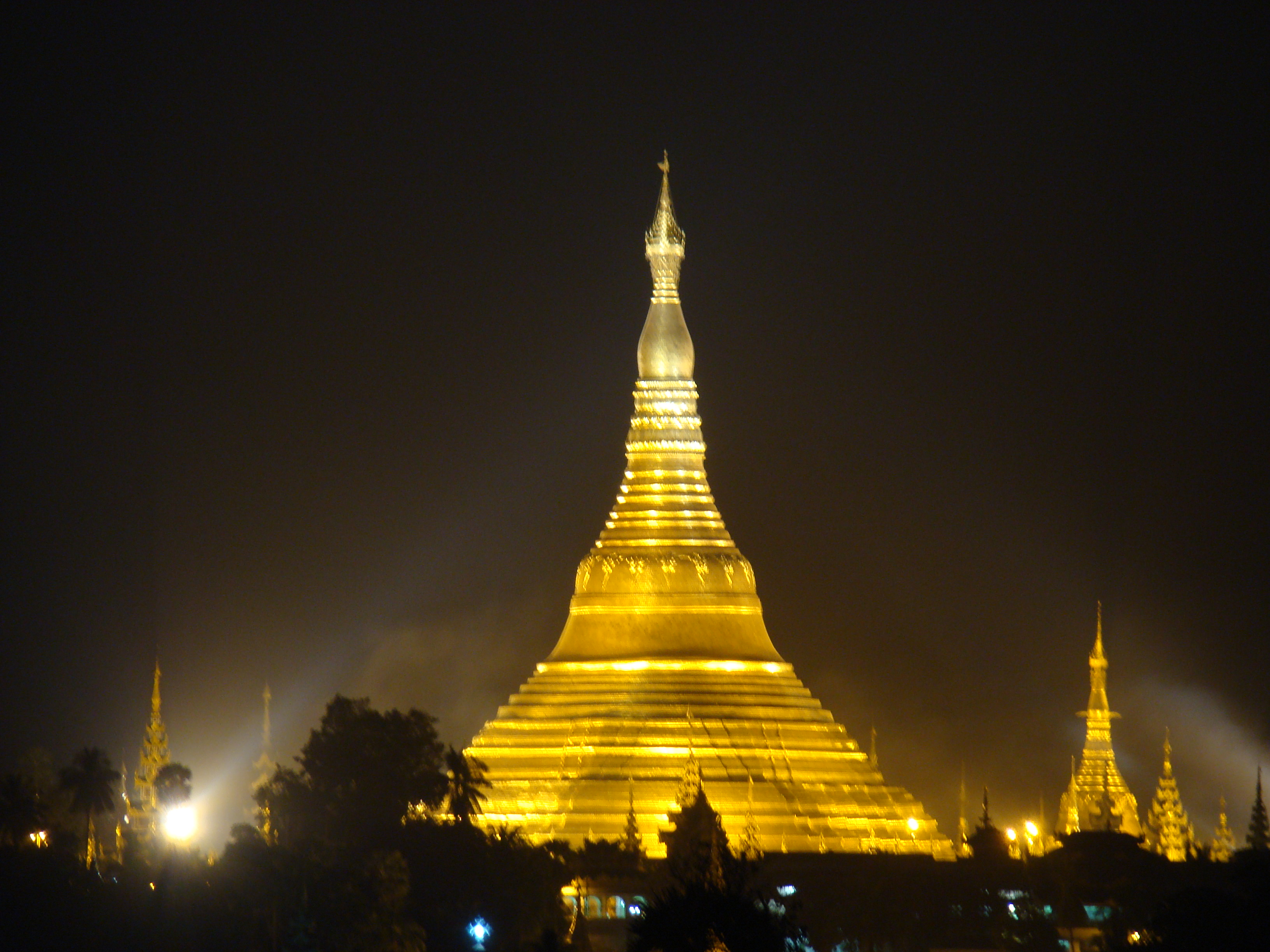 The Magnificent Shwe Dagon Pagoda